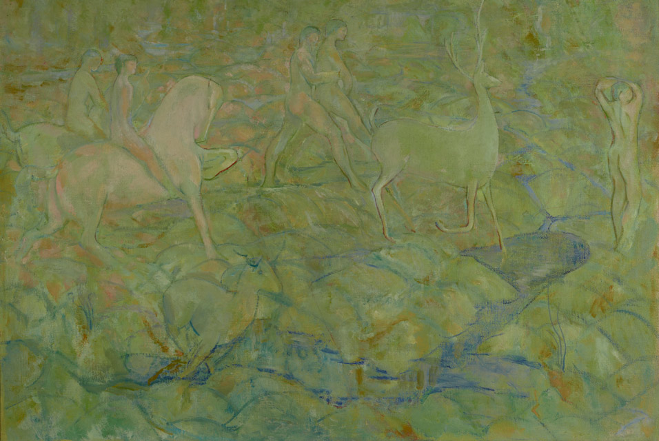 Young Rivers Artist Rex Slinkard (1887–1918)Title Young RiversObject type paintingobject_type QS:P31,Q3305213Date circa 1915 date QS:P571,+1915-00-00T00:00:00Z/9,P1480,Q5727902-16Medium oil on canvasmedium QS:P186,Q296955;P186,Q12321255,P518,Q861259Dimensions 38 × 51.5 ″ (96.5 × 130.8 cm)Collection Iris & B. Gerald Cantor Center for Visual Arts Native nameIris & B. Gerald Cantor Center for Visual ArtsParent institutionStanford UniversityLocationStanford University, Stanford, California, United States of AmericaCoordinates37° 25′ 58.8″ N, 122° 10′ 15.6″ W Established1894Web pagemuseum.stanford.eduAuthority control : Q1672708 ISNI: 0000 0004 0476 071X LCCN: n98017977 WorldCat institution QS:P195,Q1672708Accession number 1955.1027Object history Bequest of Florence WilliamsSource/Photographer